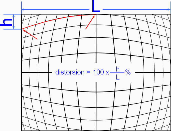 Calculation of a lens distorsion